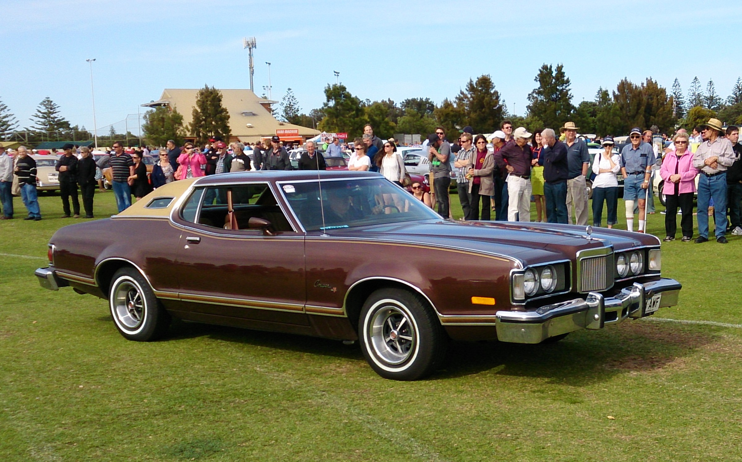 Mercury Cougar XR-7 2-Door Hardtop. 1975 or 1976.